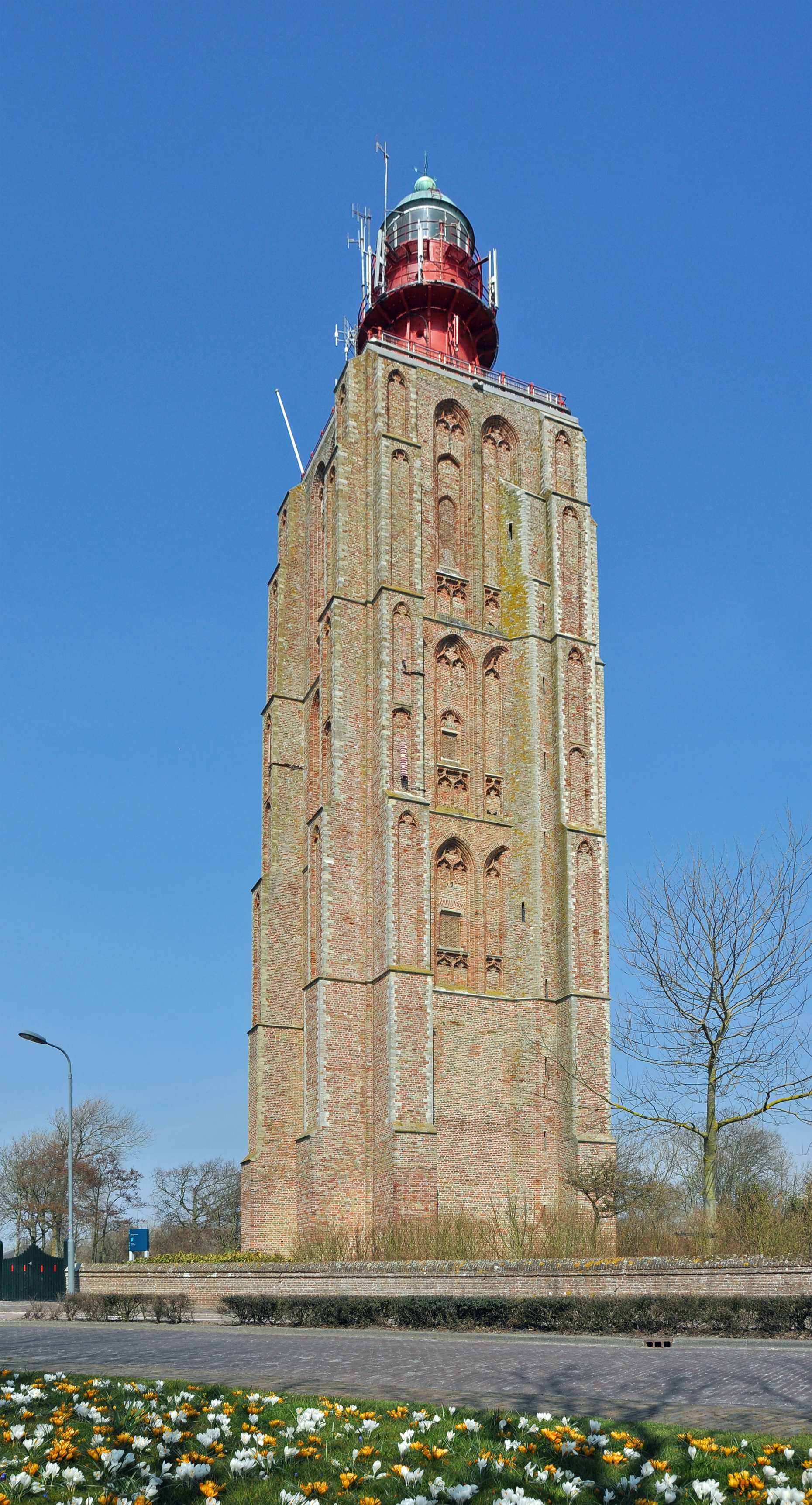 Westkapelle (province of Zeeland, the Netherlands): lighthouse Westkapelle Hoog